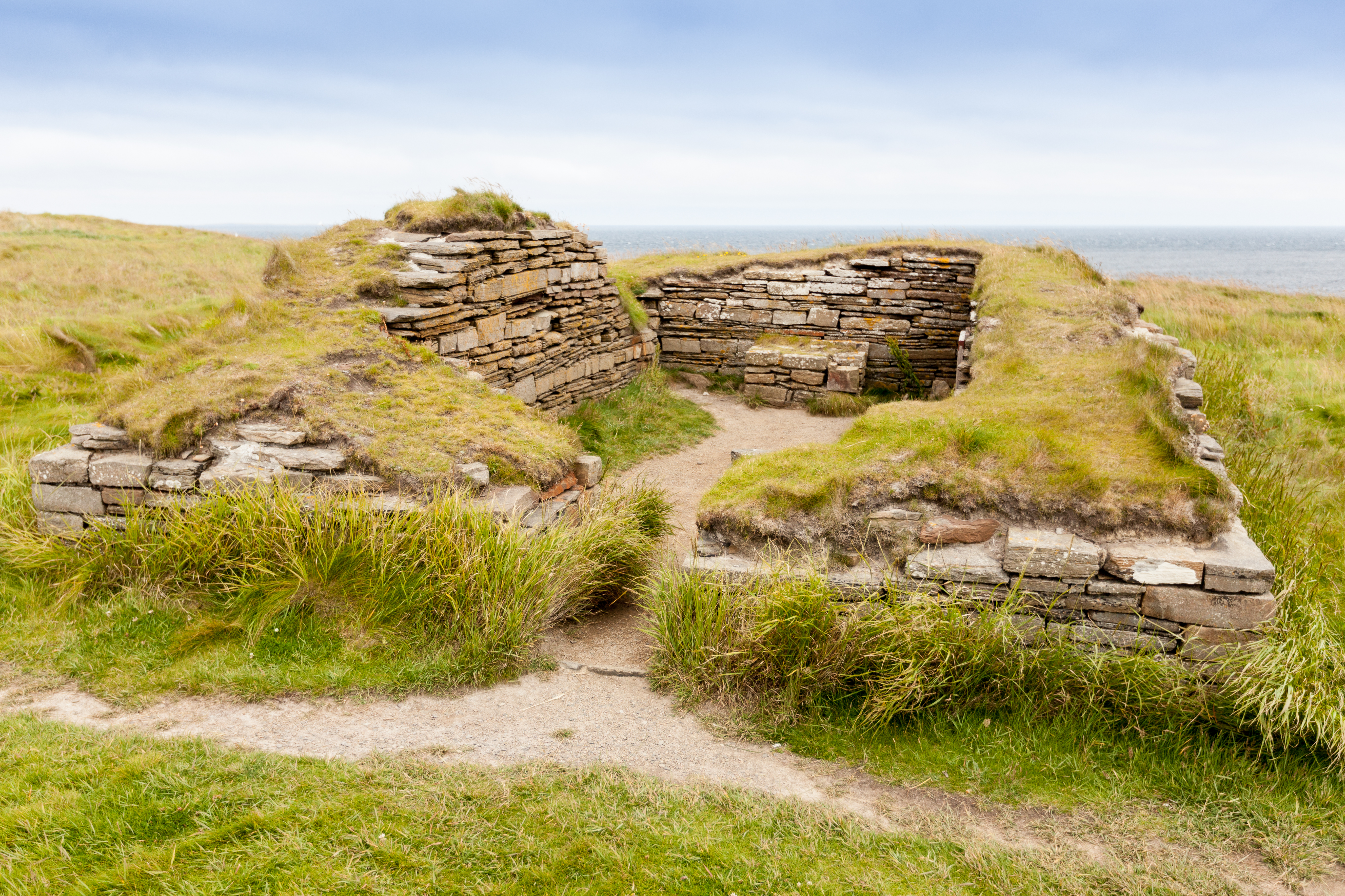 Chapel on the Brough of Deerness, remains 2014 Wikidata has entry Q31052721 with data related to this item.